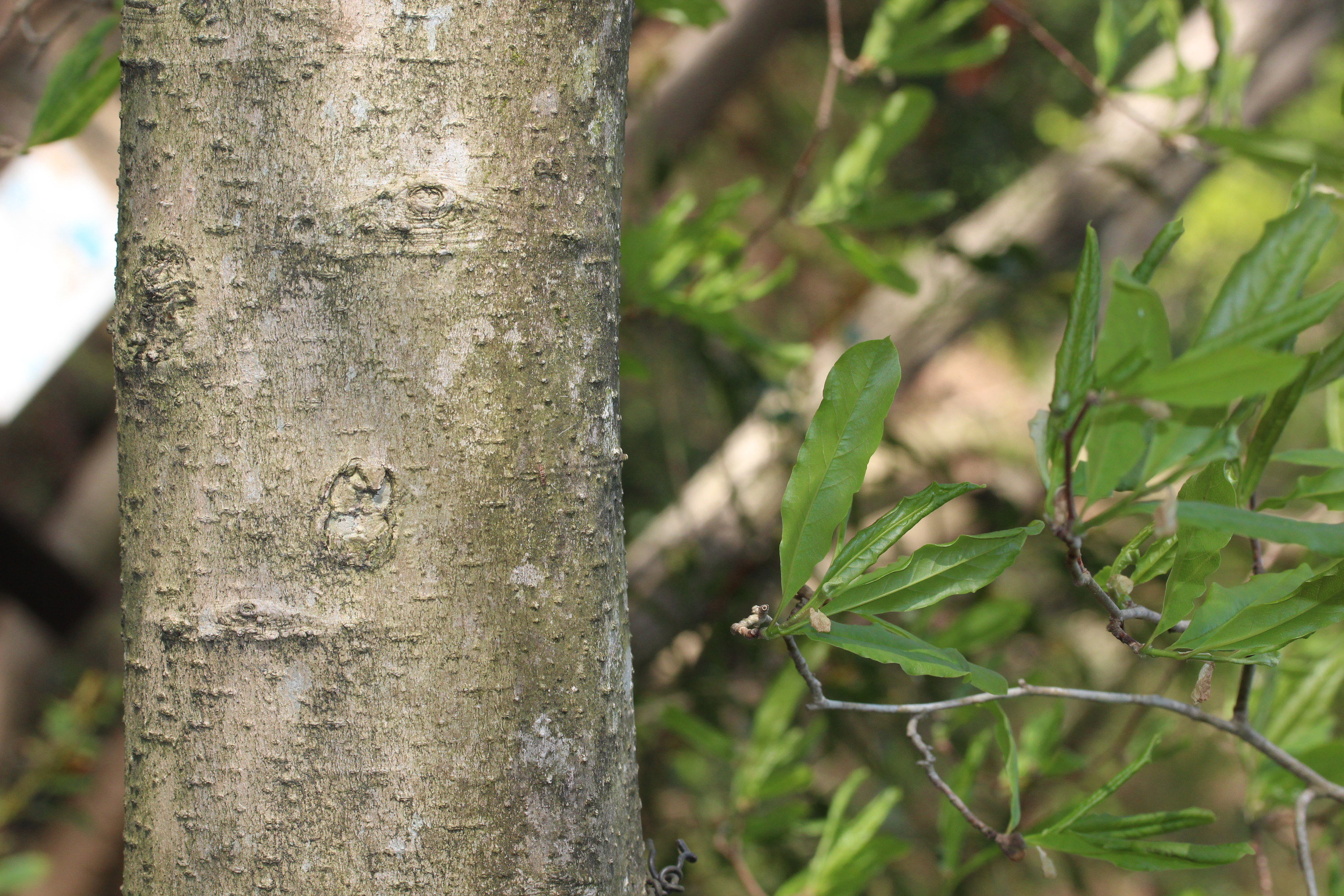 Trunk and young leaves of Magnolia stellata in Japan.